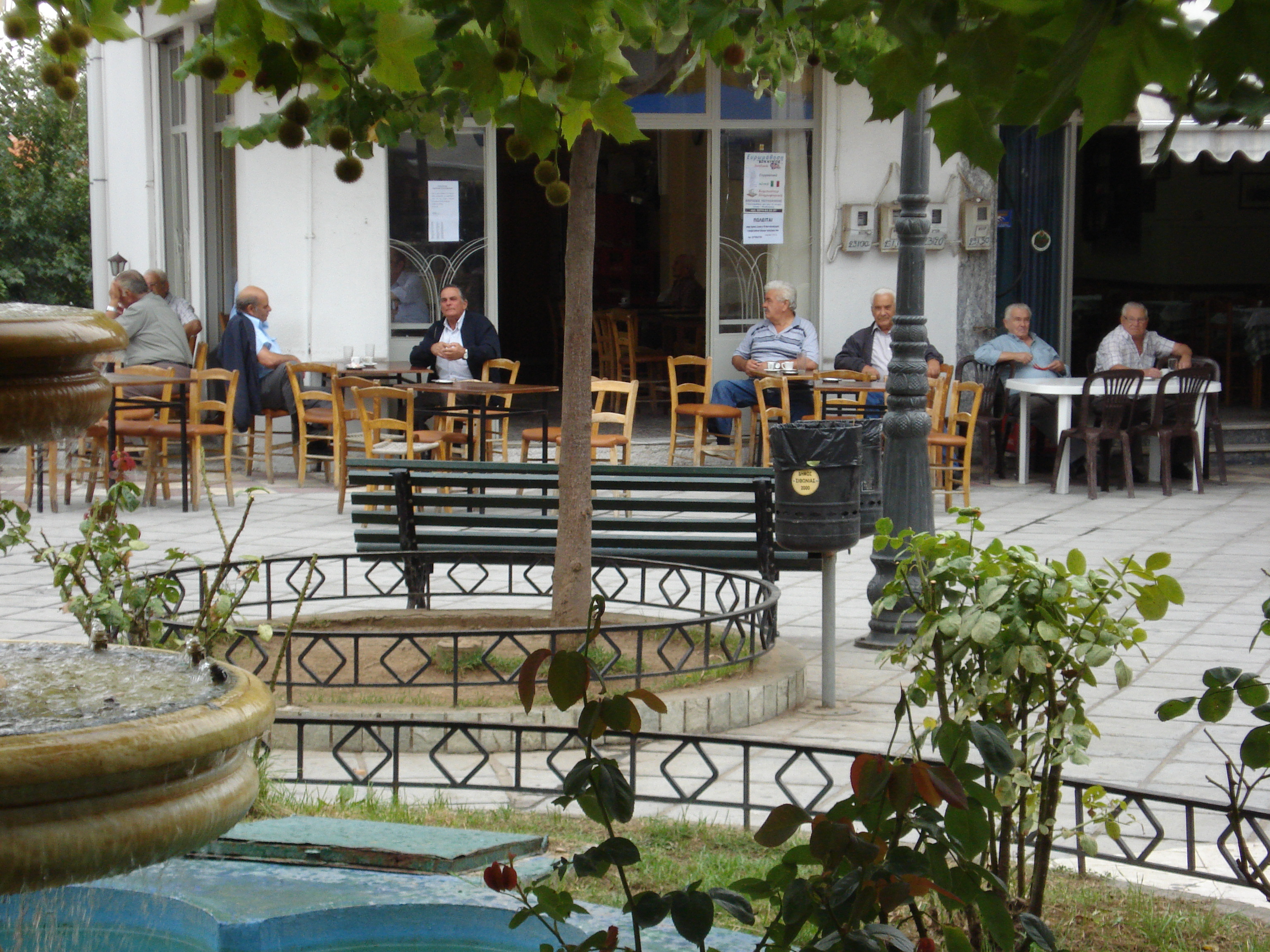 Centre of Agios Nikolaos, Chalkidiki